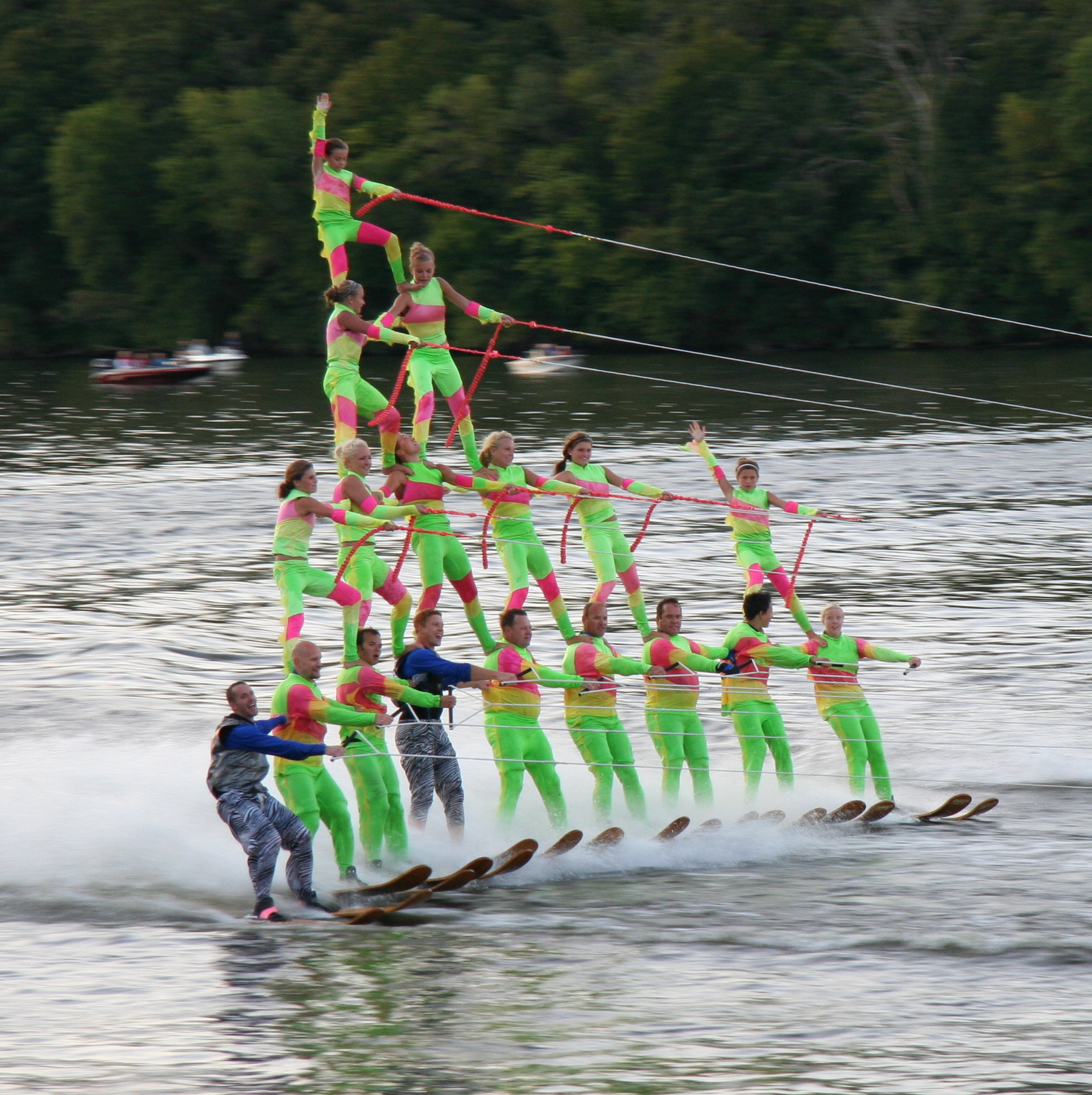 Waterski pyramid on Lake Zumbro, Minnesota